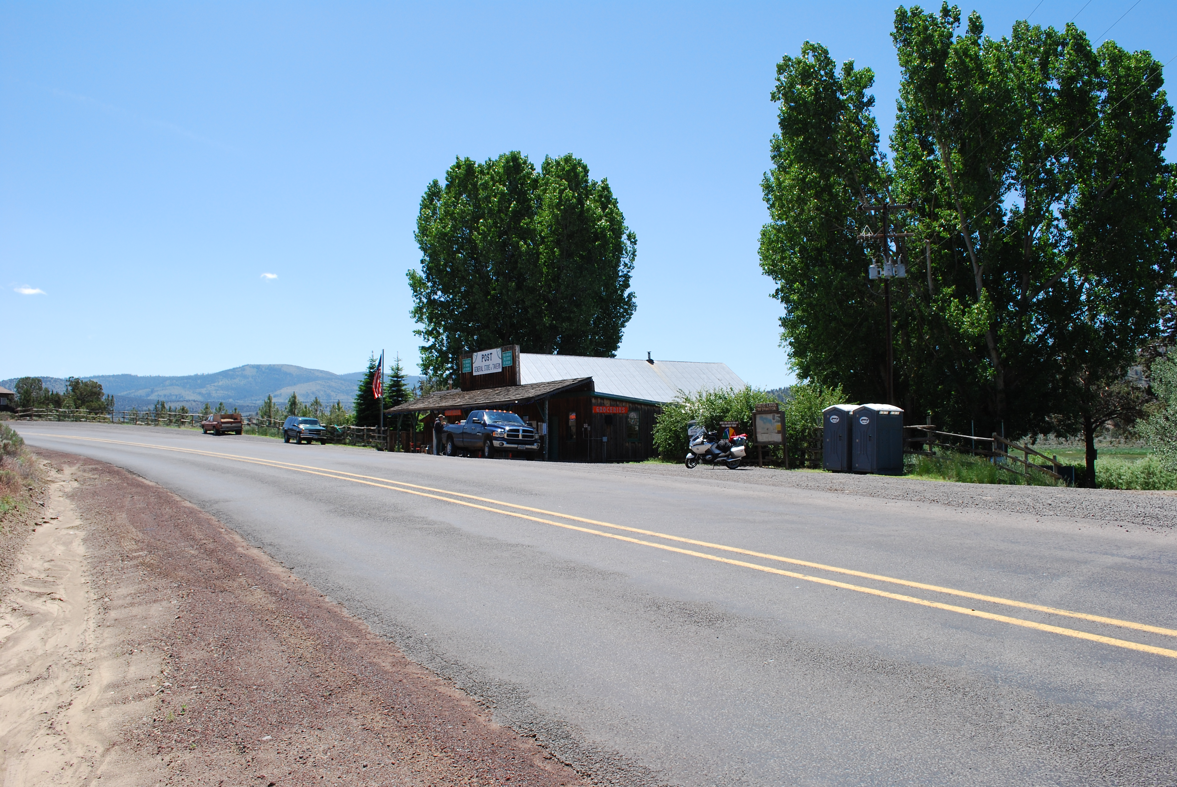 The unincorporated community of Post, Oregon